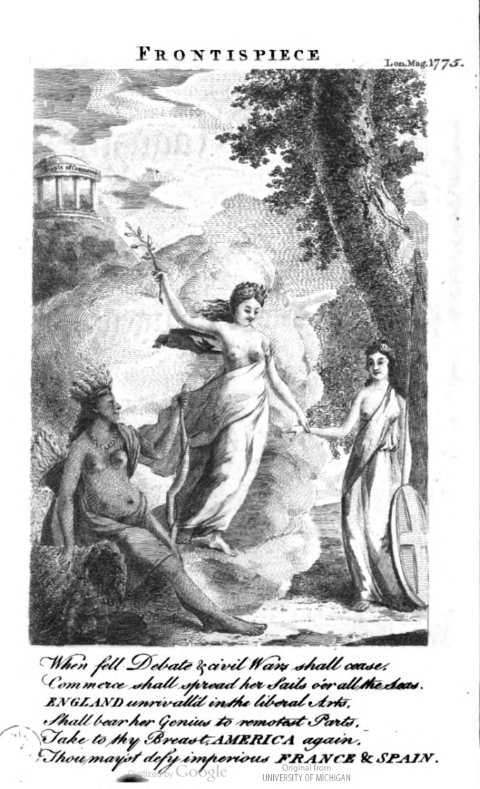 Frontispiece of The London Magazine, January 1775. "Print shows an allegorical scene with three female figures, seated on the left is America, standing center, on clouds, is Peace holding an olive branch in her right hand raised toward an airy "Temple of Commerce" and, in her left hand, the right wrist of Britannia who stands on the right with shield and spear. Includes verse: When fell Debate & civil Wars shall cease, / Commerce shall spread her Sails o'er all the Seas. / ENGLAND unrivall'd in the liberal Arts, / Shall bear her Genius to remotest Parts, / Take to thy Breast, AMERICA again, / Thou may'st defy imperious FRANCE & SPAIN."[1]